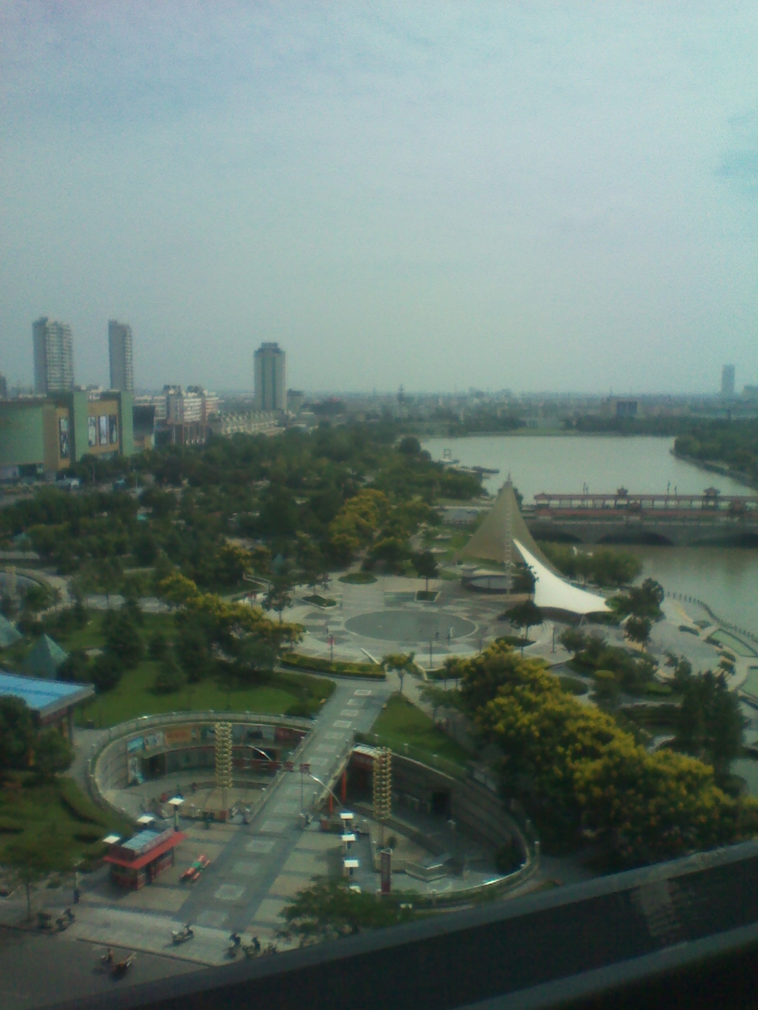 This is a view from Pozijie in Taizhou of a small park in the downtown part of the city.